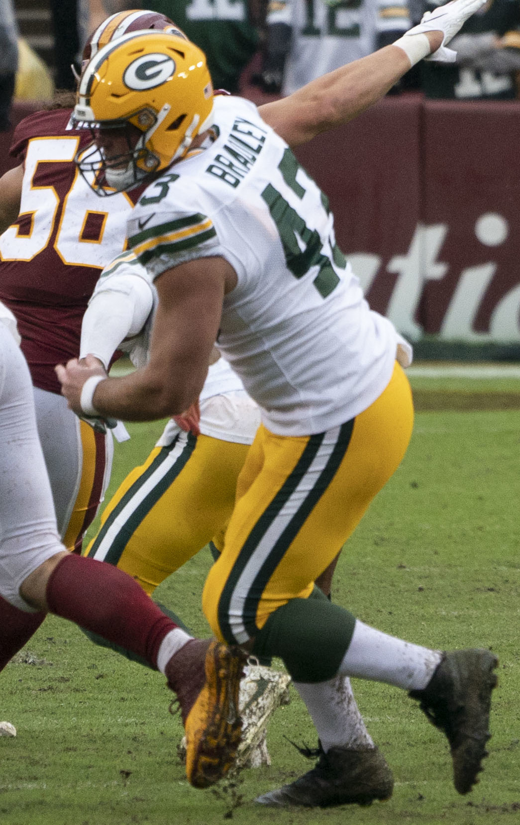 JK Scott of the Green Bay Packers punts a ball during a 2018 game against the Washington Redskins.